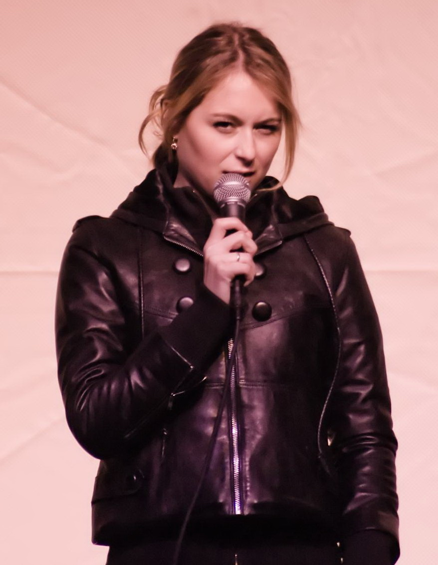 Alexa Vega on the mike addressing the audience. She was very down to earth and seemed to genuinely enjoy being there.